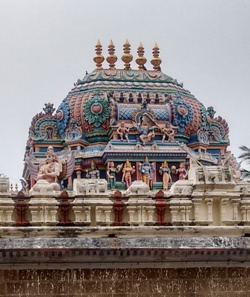 Nagapattinamsoundararajaperumaltemple நாகப்பட்டினம்சௌந்தரராஜப்பெருமாள்கோயில்